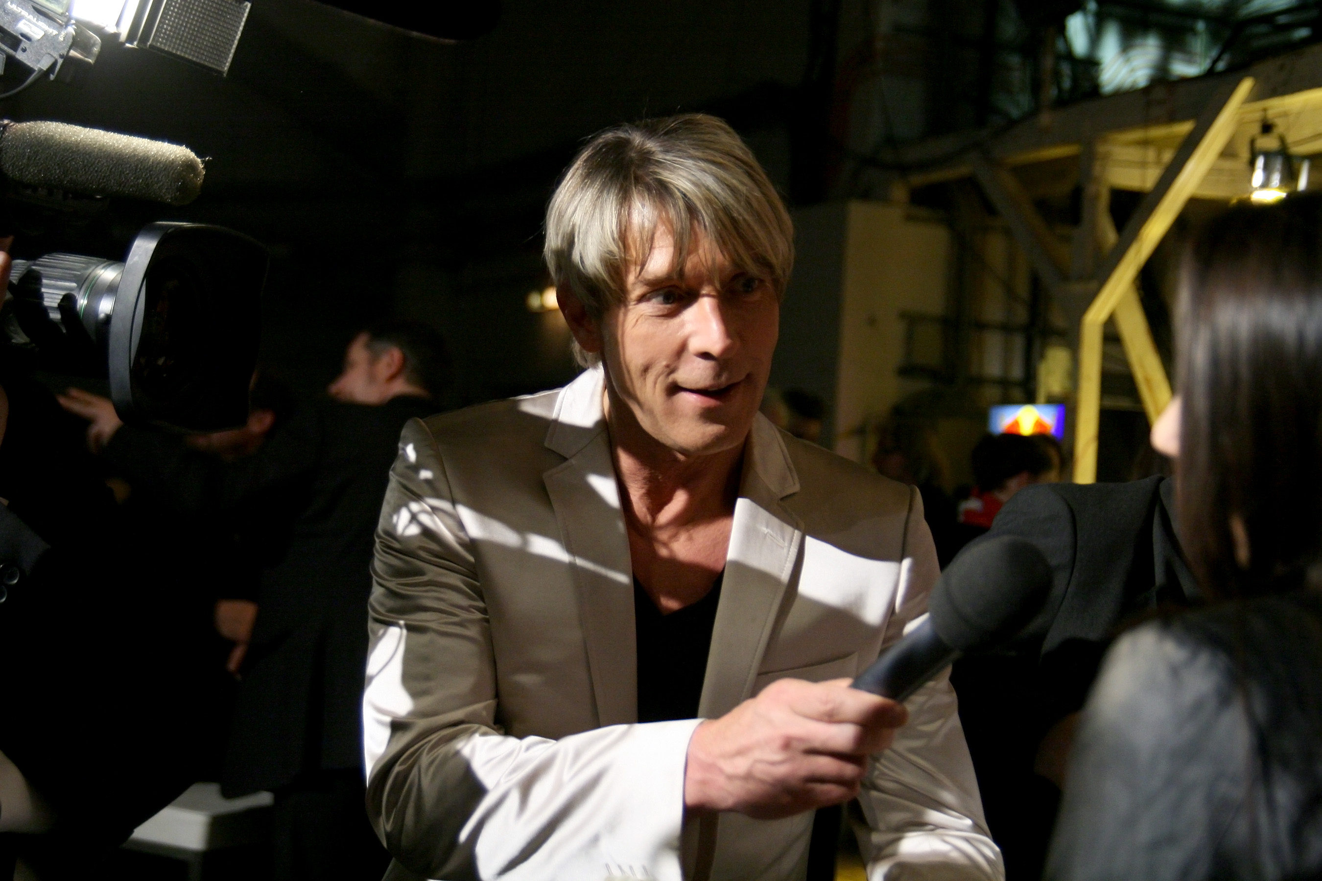 Dominic Heinzl reporting from the Austrian Film Awards 2012 (Vienna).